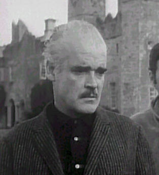 Patrick Magee as Dr. Caleb and William Campbell as Richard Haloran. Screenshot taken from the Roan Group DVD of the film Dementia 13 (1963).